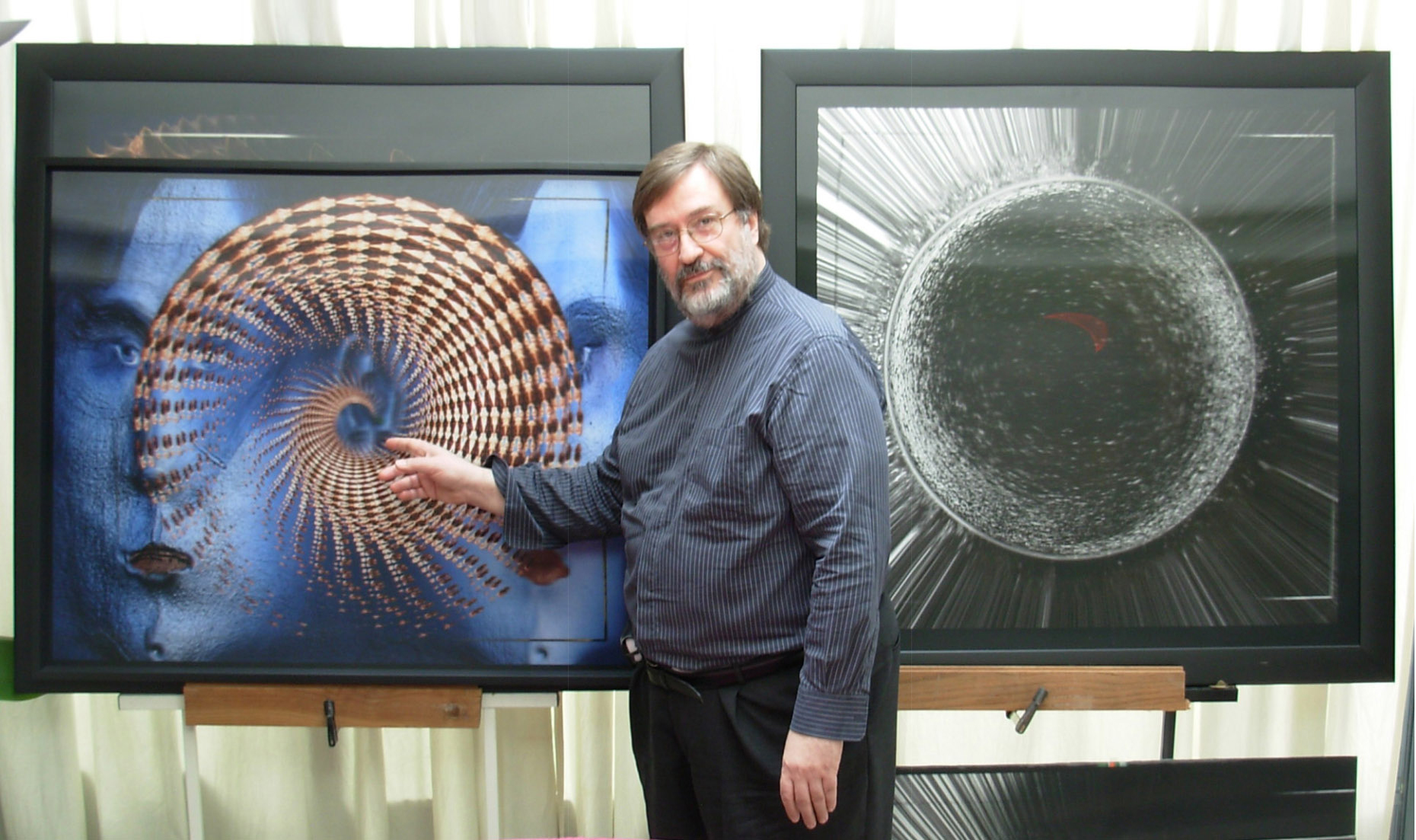 Frank Verpillat with his works